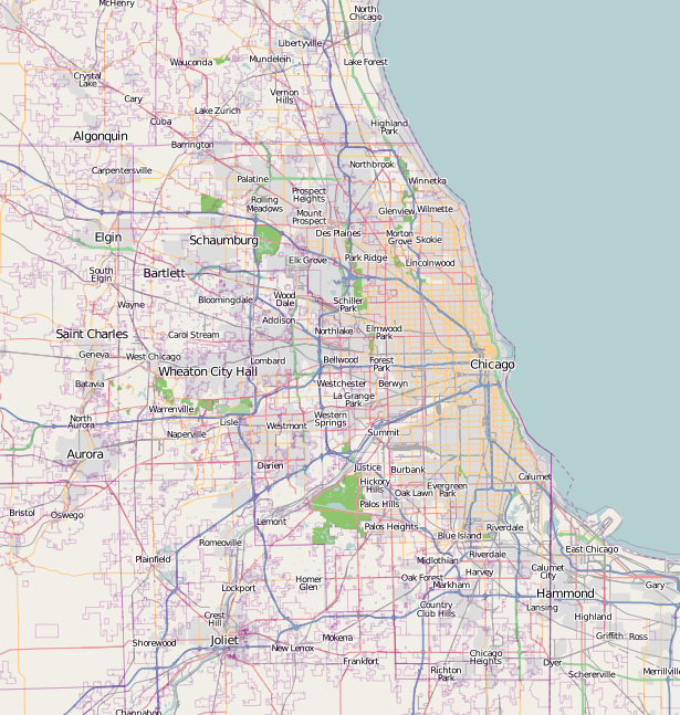 A map of Chicago, IL, and the surrounding area OpenStreetMap cut-out (or derivative work based on it): without further description This cut-out may be incomplete, and may contain errors, or may be obsolete. Don't rely solely on it for navigation. See the image in the present state and its original context on the Illinois OpenStreetMap wiki page for Chicago, Illinois